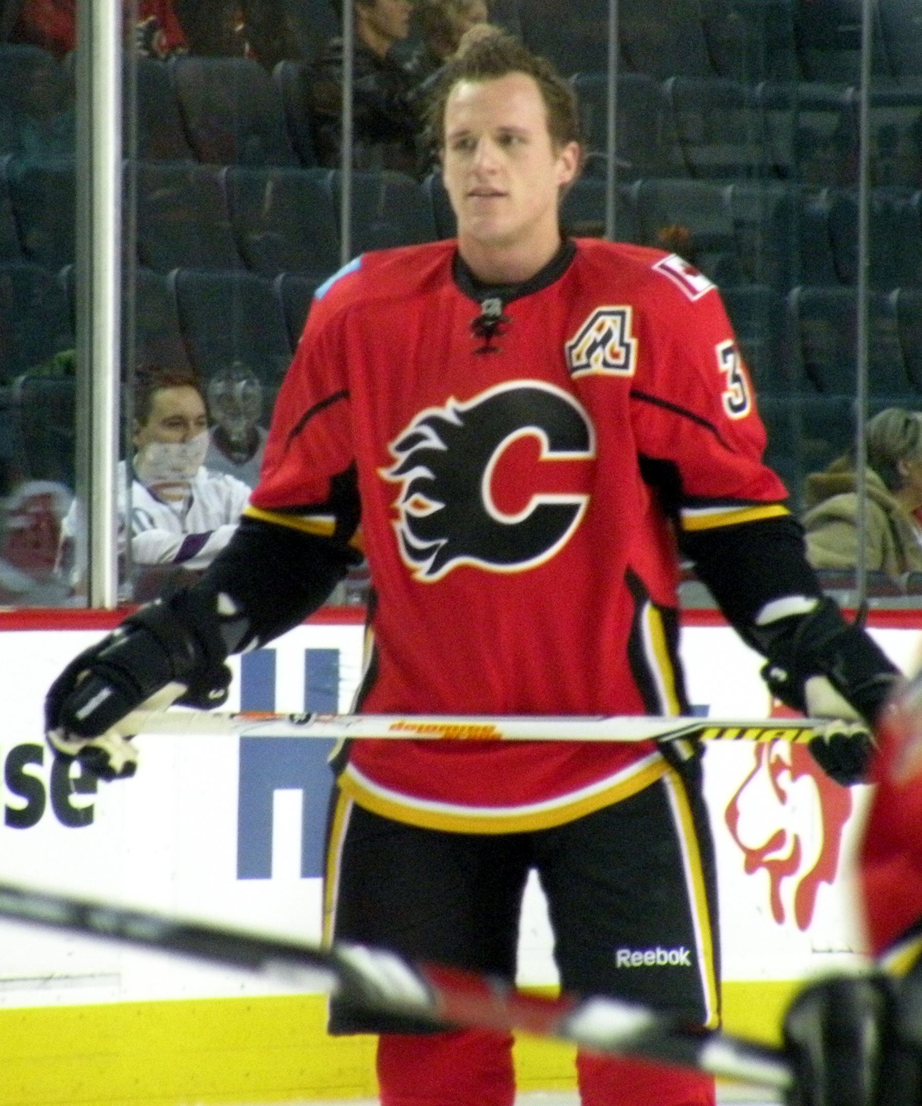 Defenceman Dion Phaneuf warming up prior to a game between the Calgary Flames and Detroit Red Wings at Calgary, November 22, 2008.